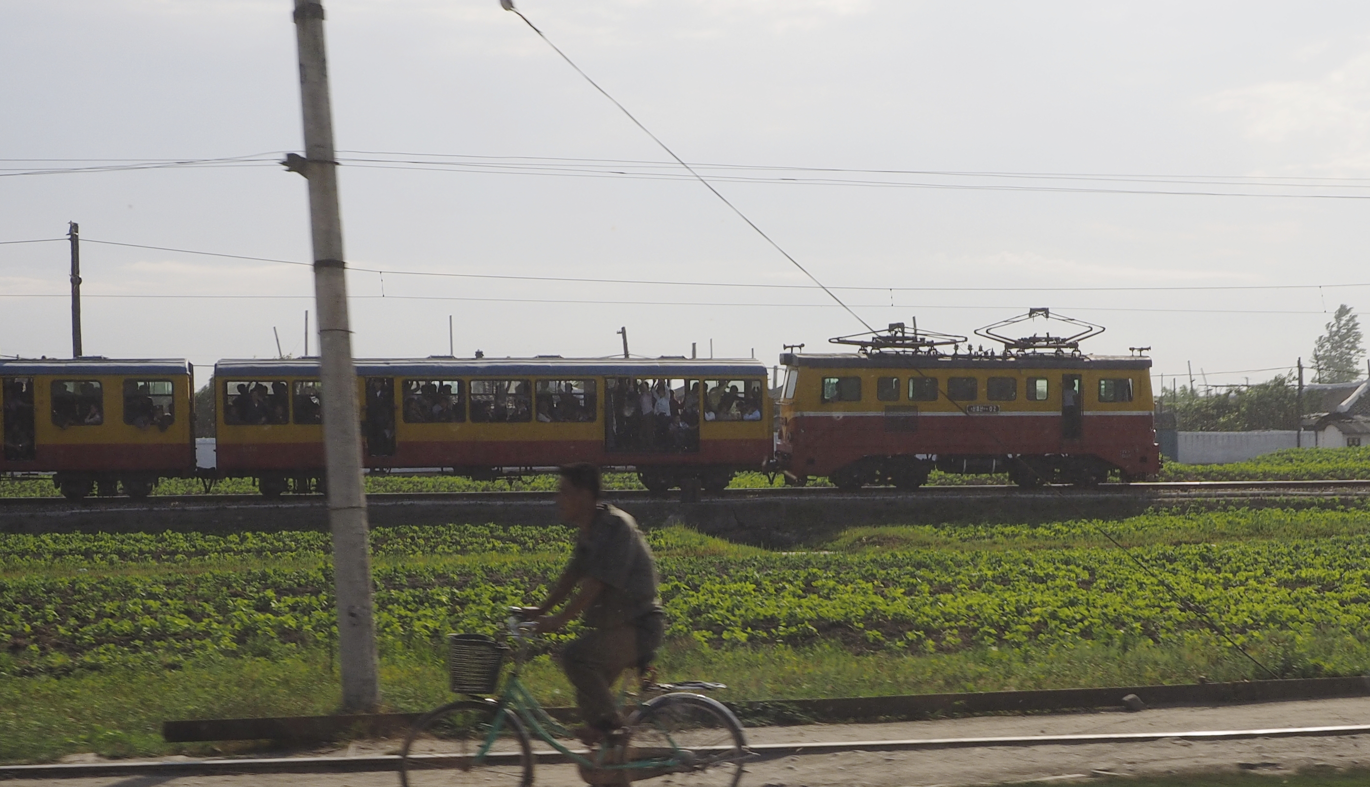 The track looked like meter gauge, yes the cars look packed but I'd love to ride this railway. I caught this what I guess is a local type service from the bus as we drove north to a beach resort. Who knows, someday.....